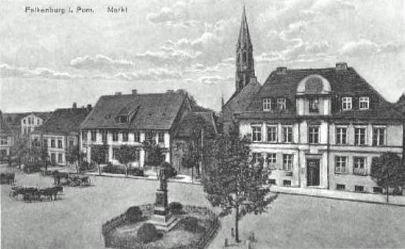 Market place in Złocieniec (Falkenburg in Pommern) about 1900